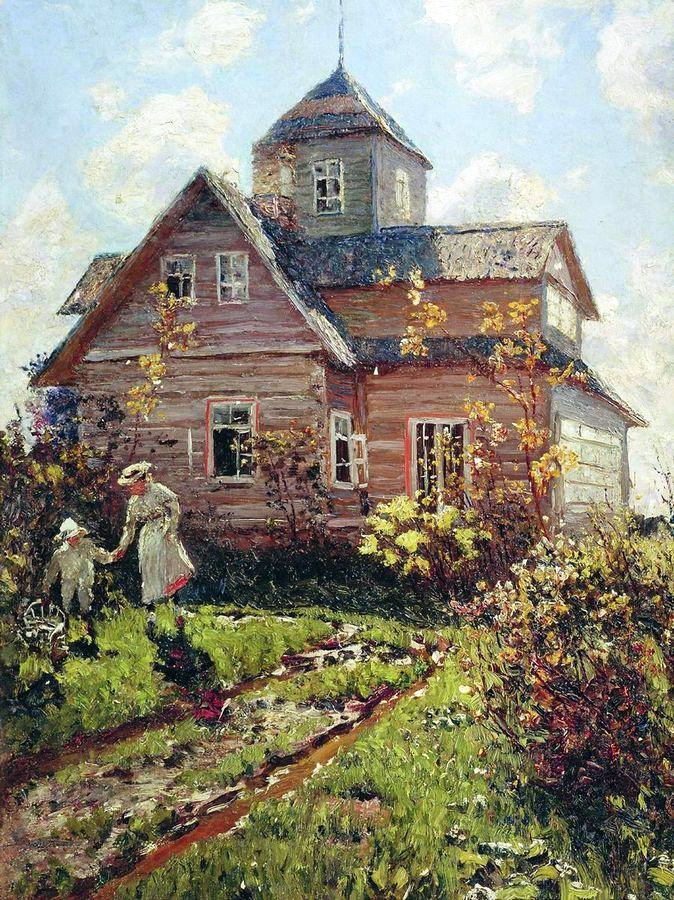 Cottage in Sillamägi. 1907. Oil on canvas. National Art Museum of the Republic of Sakha (Yakutia), Russian Federation.